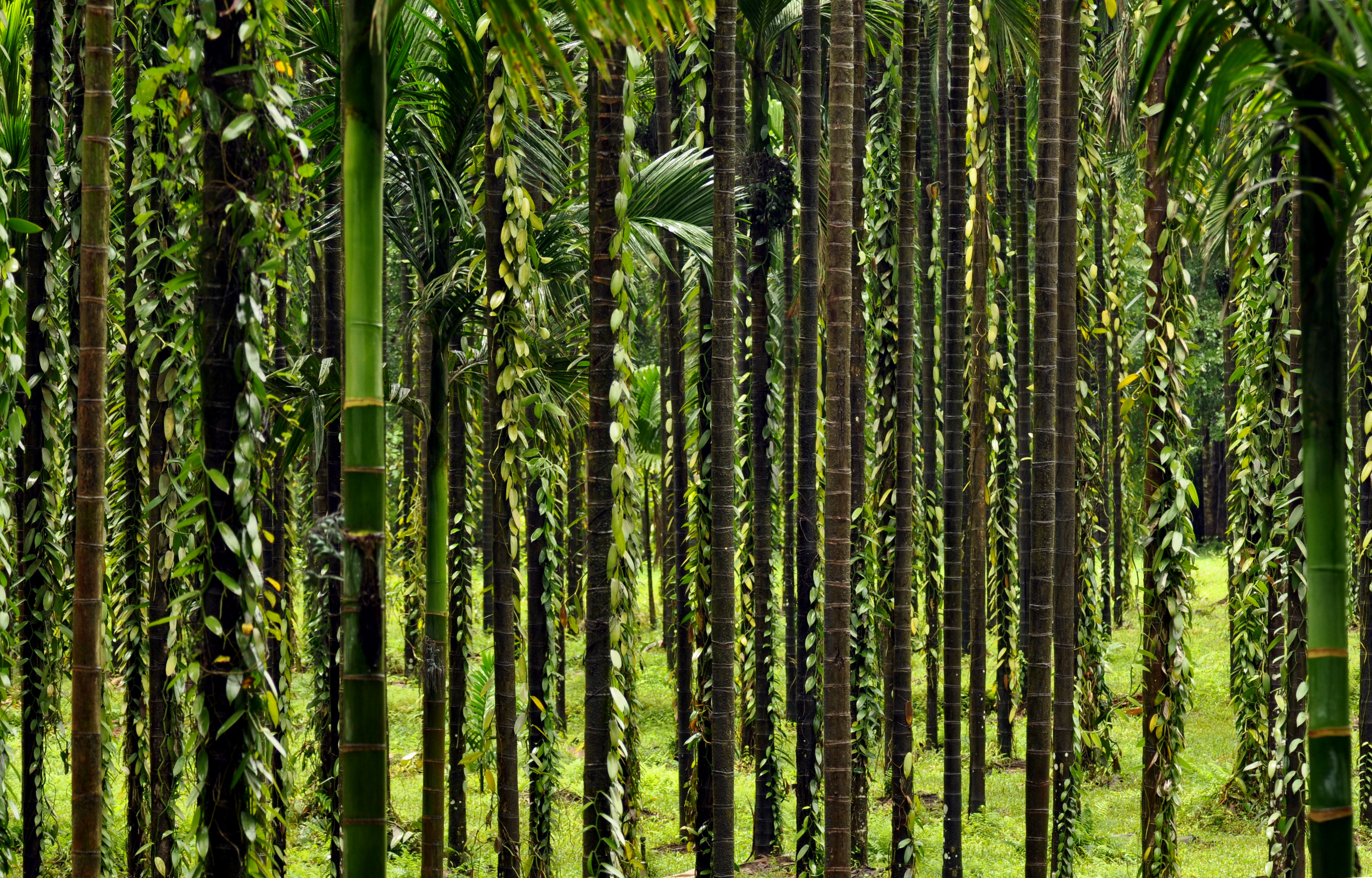 Areca trees with vanilla climbers near Agumbe, in Karnataka Western Ghats, India